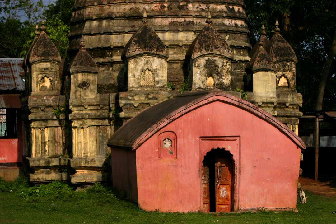 The place is in Assam, India. Canon EOS Digital Rebel / Canon 70-300mm lensAssam, India: Temple